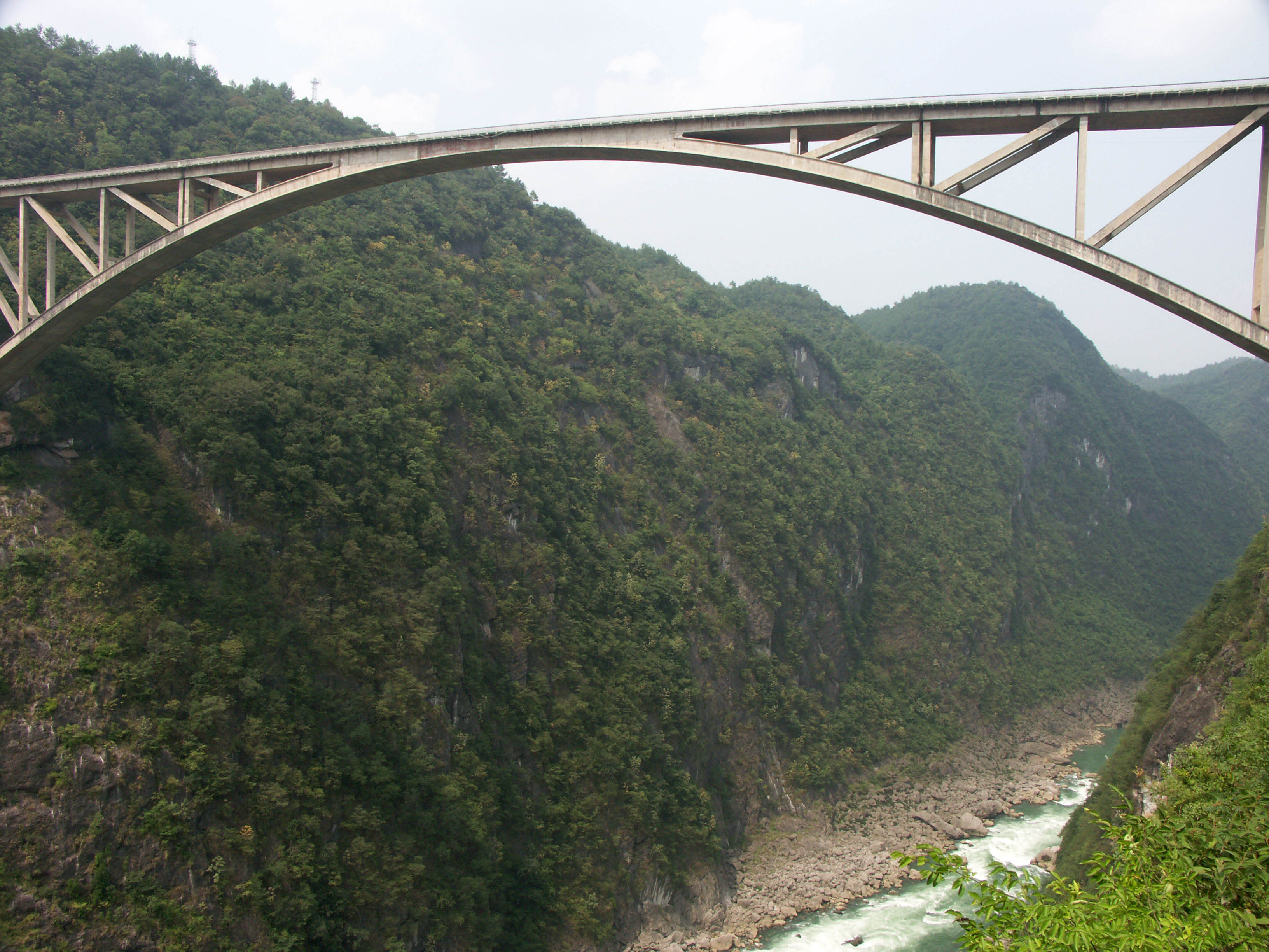 Photo of the Jiangjiehe Bridge in China.